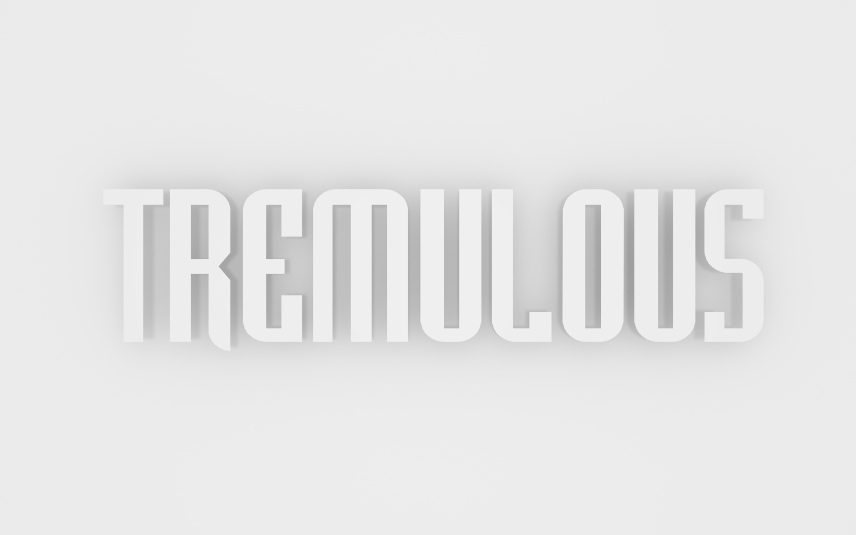 Tremulous logo